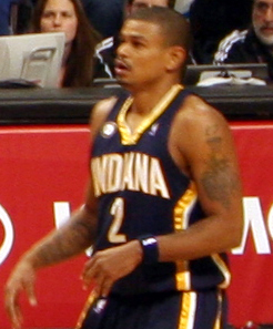 Earl Watson of the Indiana Pacers Bulls vs Pacers December 2009